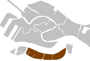 districts of Venice: giudecca island